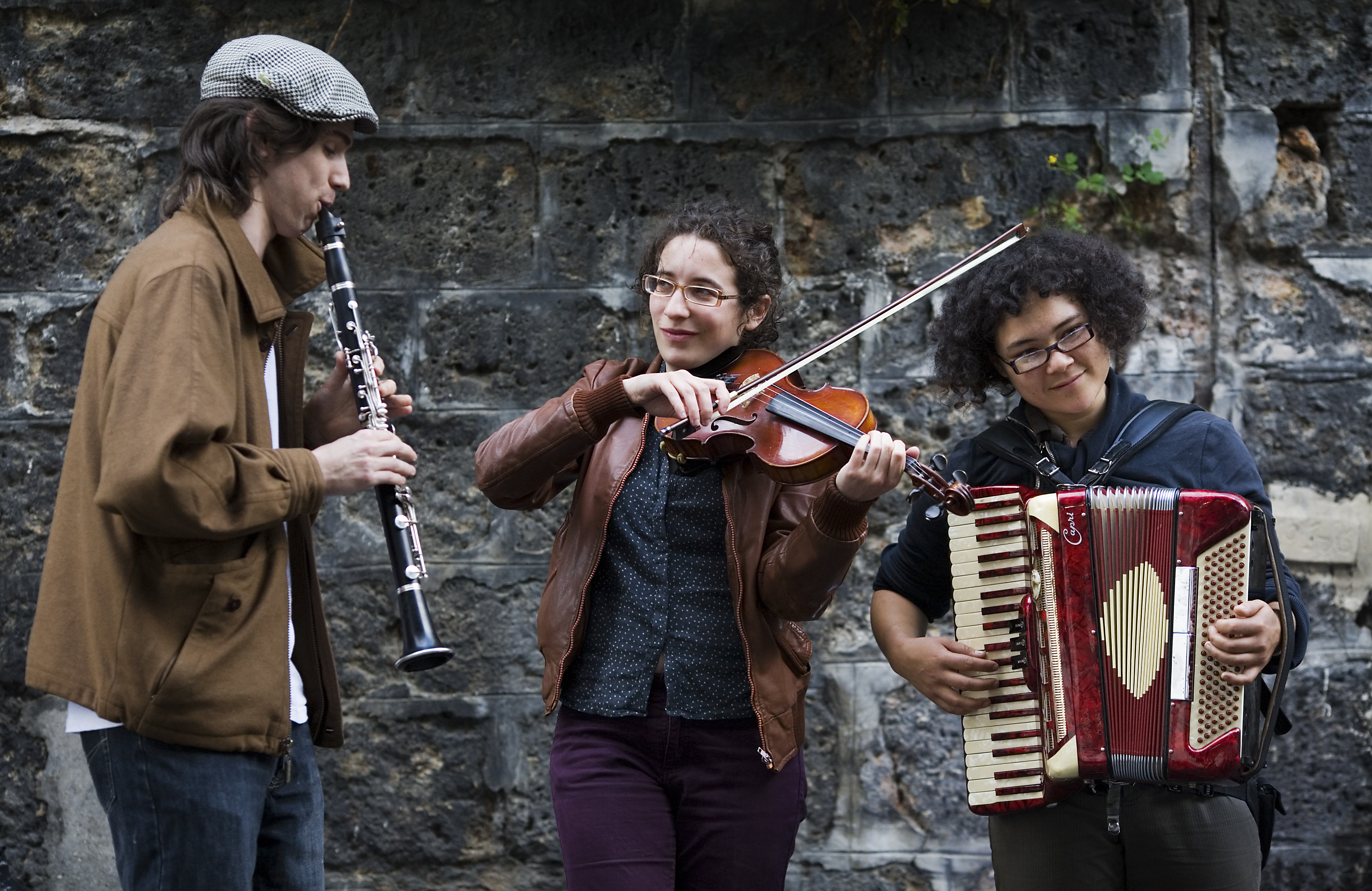 Street musicians in Montmartre, Paris